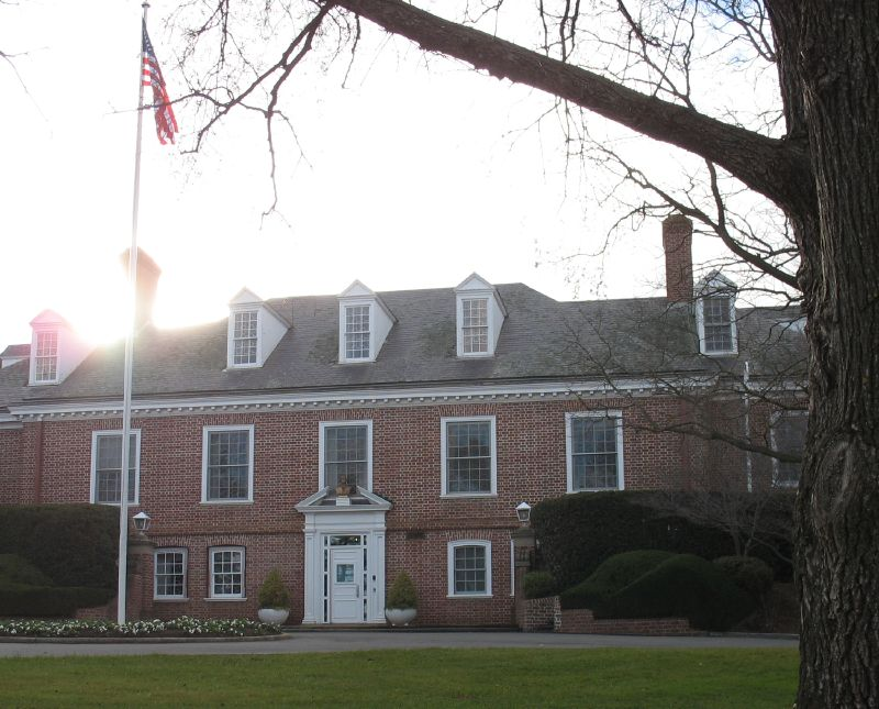 US Embassy in Yarralumla, Australian Capital Territory